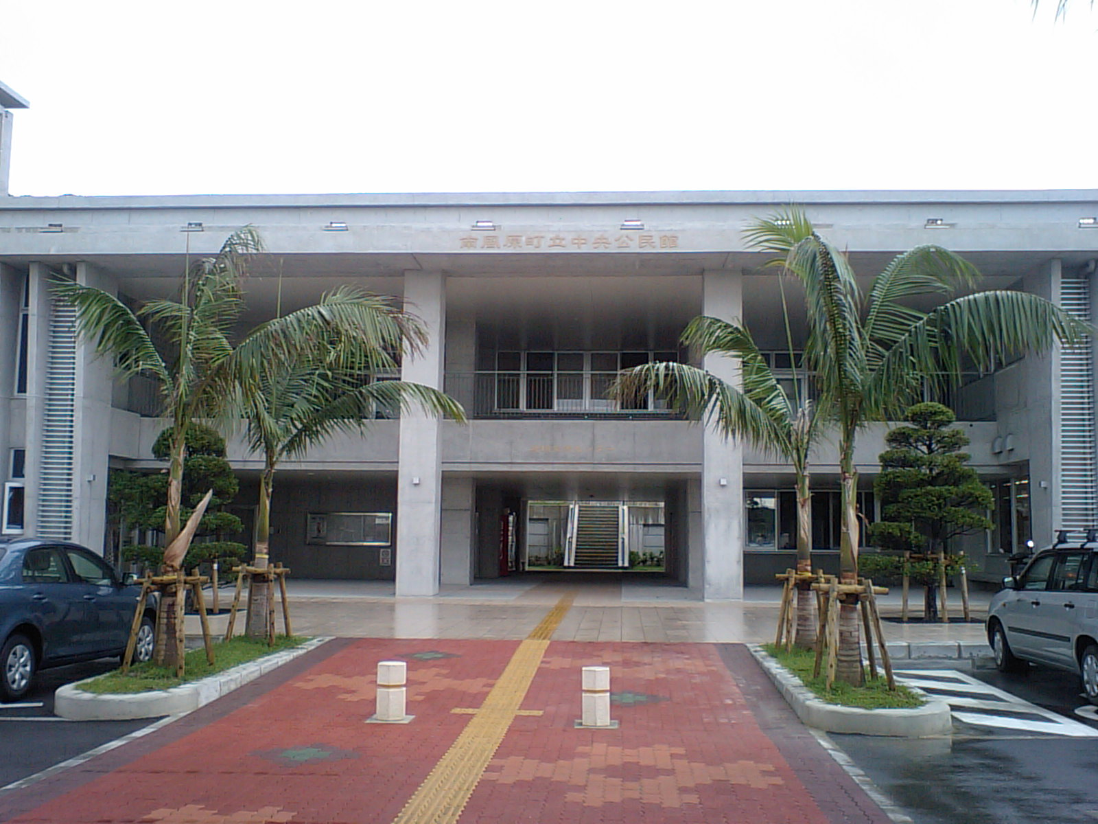 Haebaru town Central community center - Nippon - okinawa